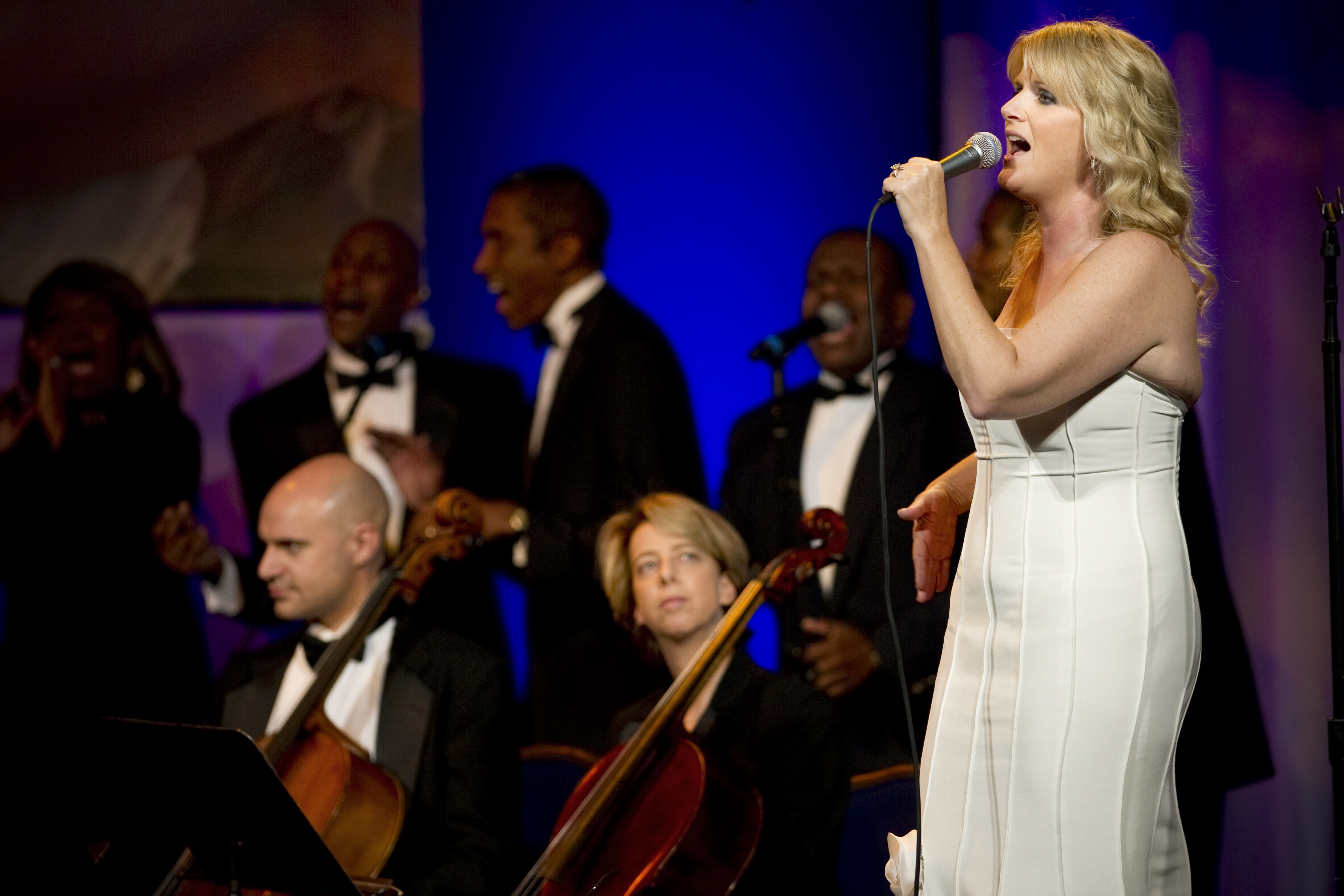 Country music legend Trisha Yearwood performs at the USO Gala in Washington, D.C., USA, Oct. 7, 2010.